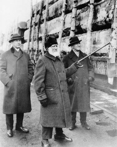 [Left to right: C. Jackson Booth, J. Randolphus Booth,--. Last load of waney timber (white pine) to come off the Madawaska limits].